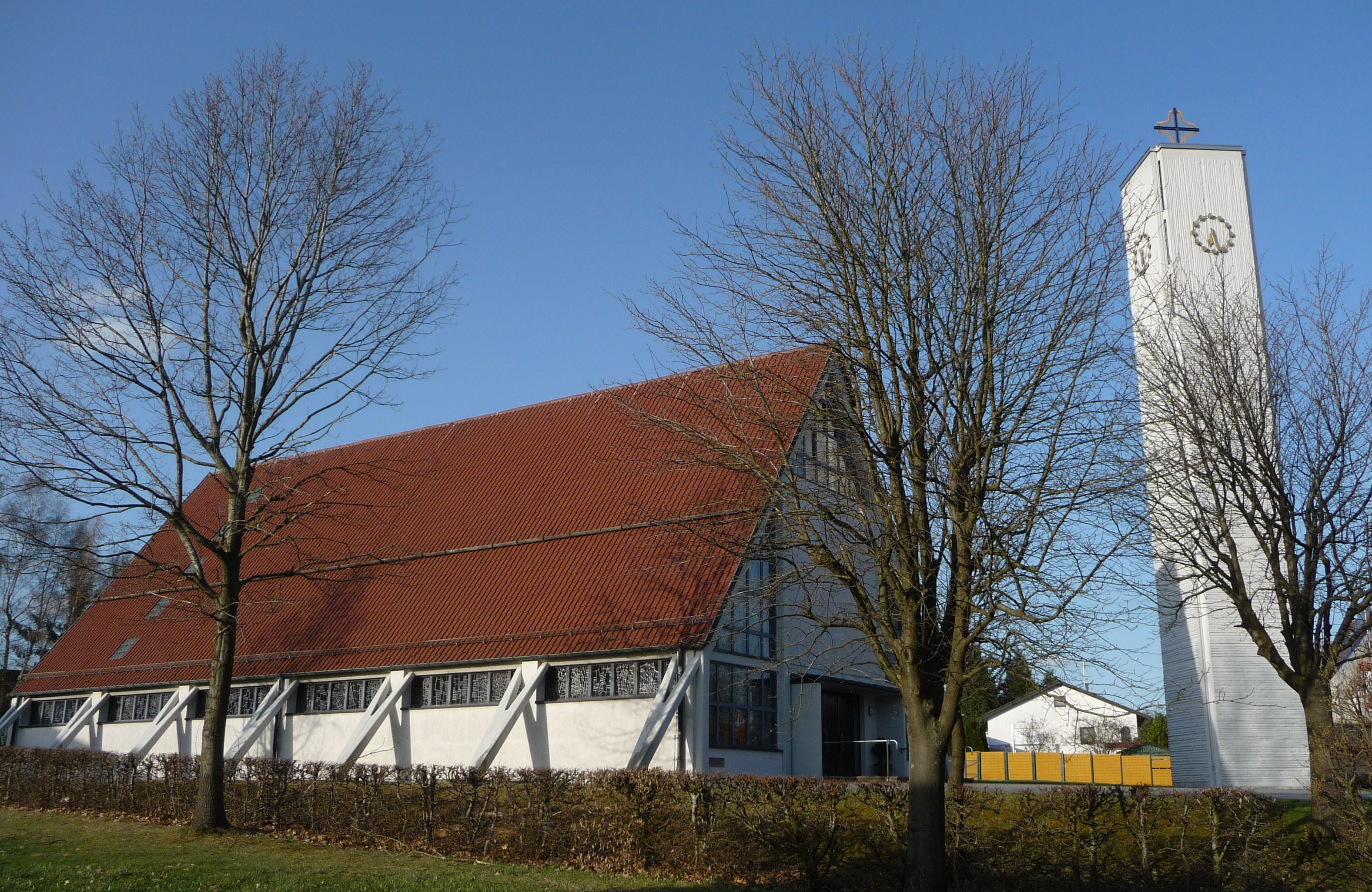 church in Scheidental, Neckar-Odenwald-Kreis, Germany